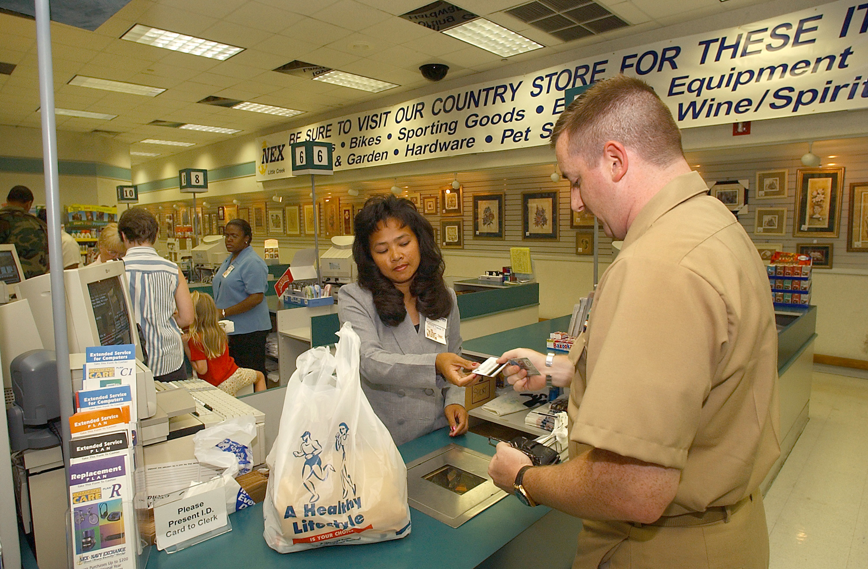 Norfolk Va. (Aug. 7, 2002) -- A Shopper pays for his purchase at one of the cashier counters inside the Navy Exchange located at Naval Base Little Creek. U.S. Navy photo by Photographer’s Mate 1st Class Martin Maddock. (RELEASED)